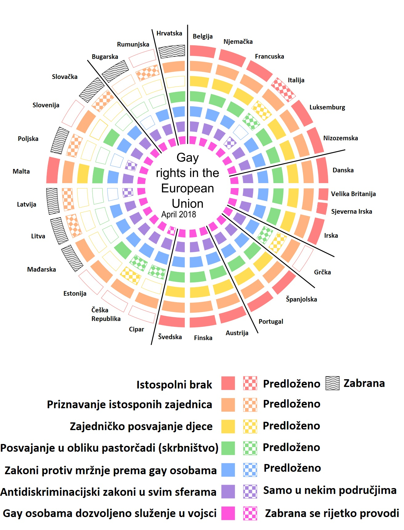 Lgbt Rights in the EU (in Croatian Language)